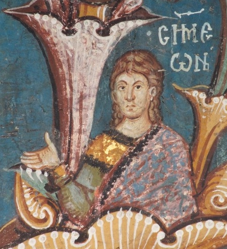 Detail of fresco Loza Nemanjića,Simeon Siniša,Visoki Dečani,Serbia.